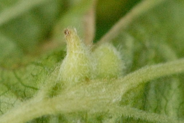 Dasineura ulmaria from Commanster, Belgian High Ardennes .